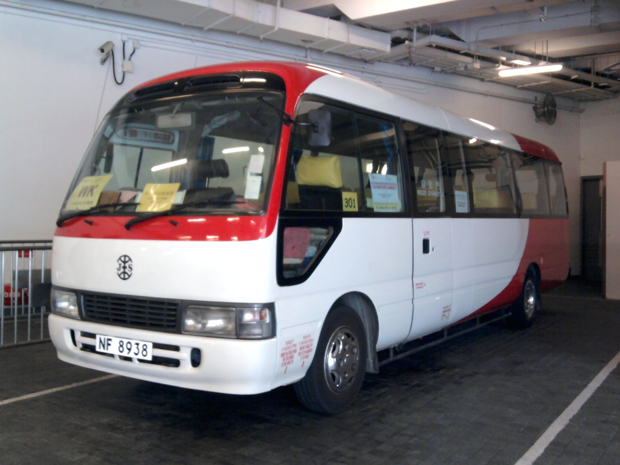 Hong Kong Community College school bus